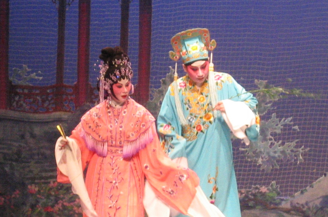 Version of Image:Vancouver Cantonese Opera Extravaganza 22May2005 - 11.jpeg cropped and rotated to show the singers (using the GIMP)